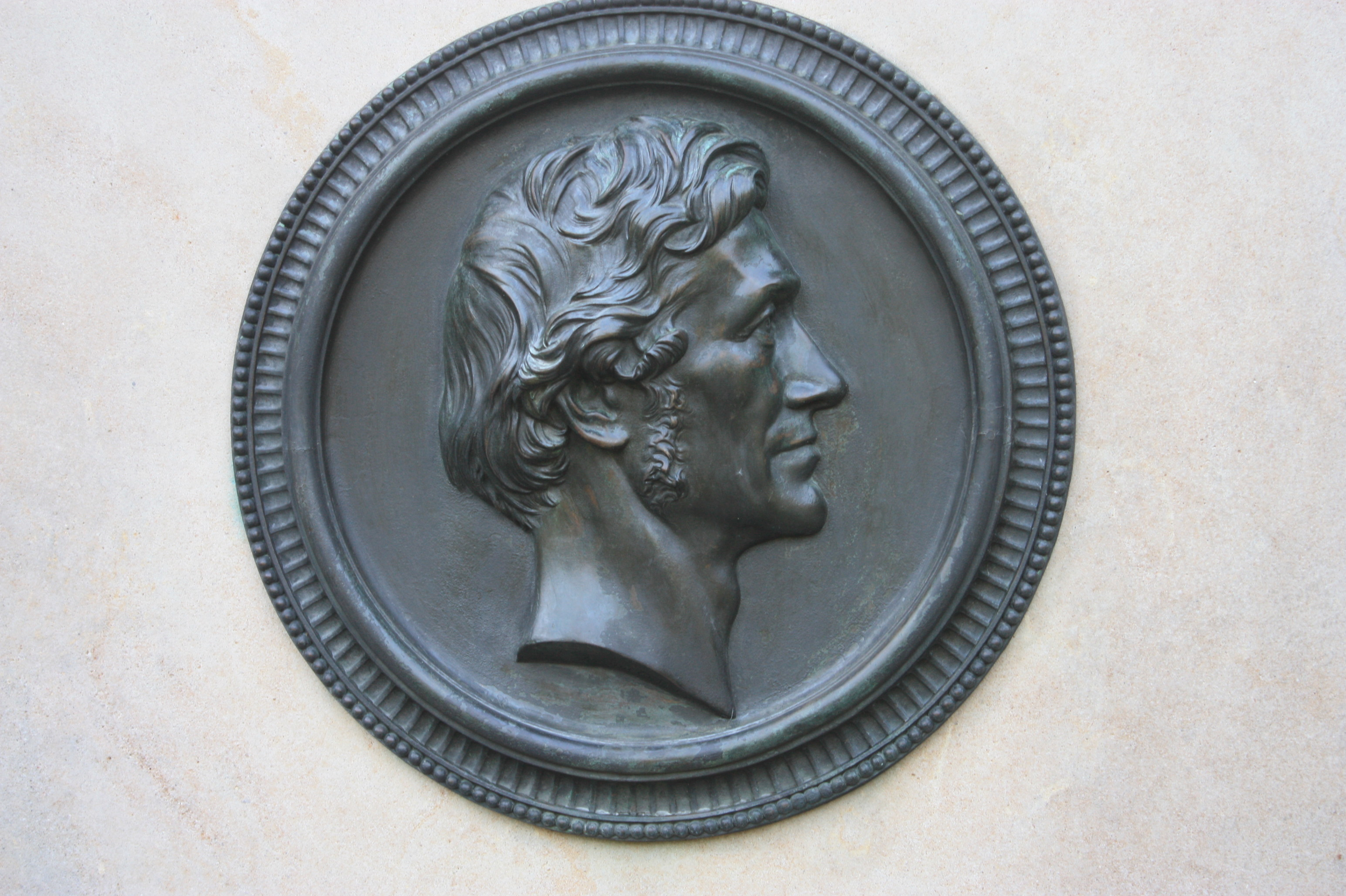 Medallion head on the grave of Ernst Rietschel, Trinitatis Friedhof, Dresden